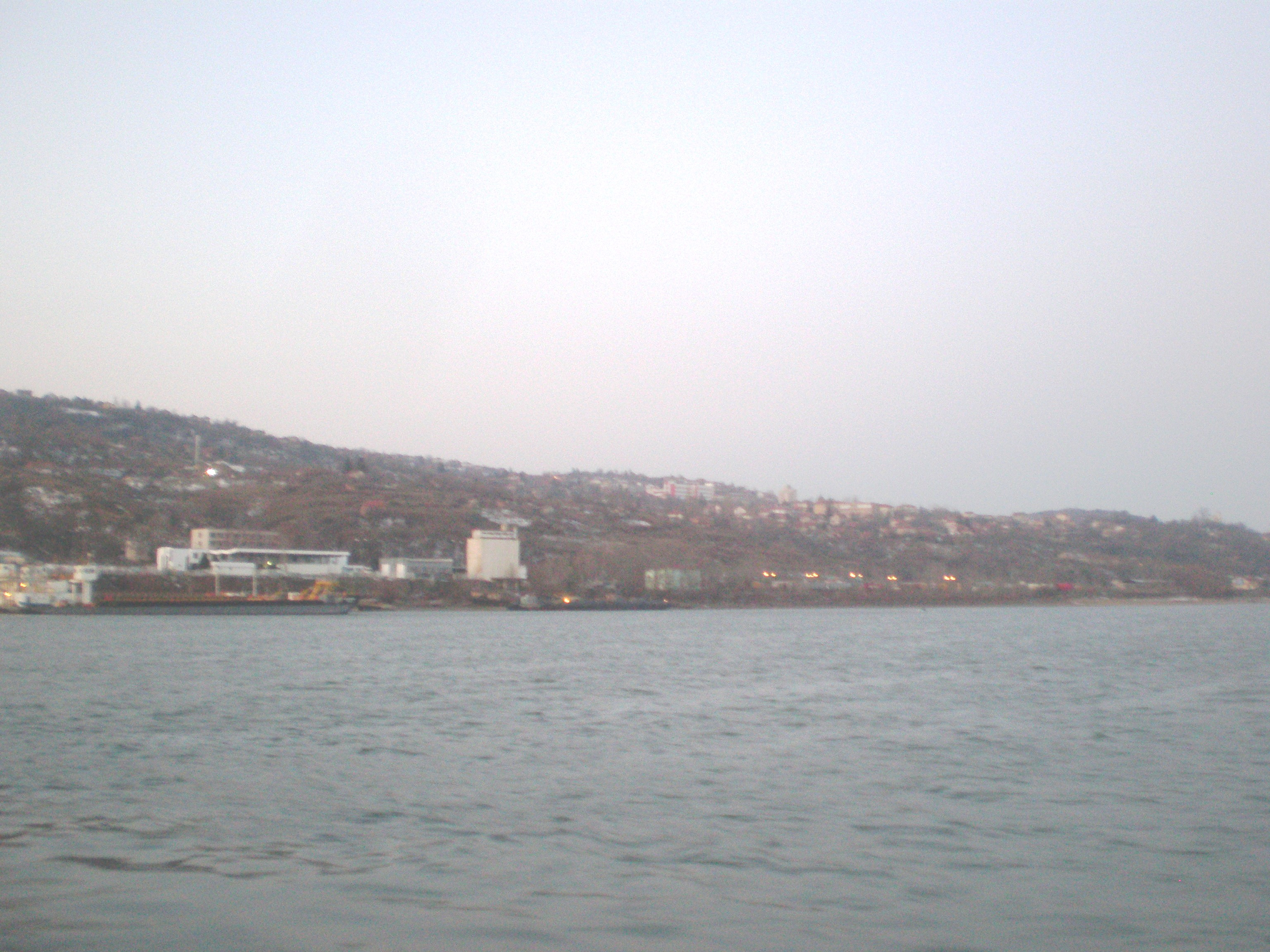 Oryahovo, Bulgaria